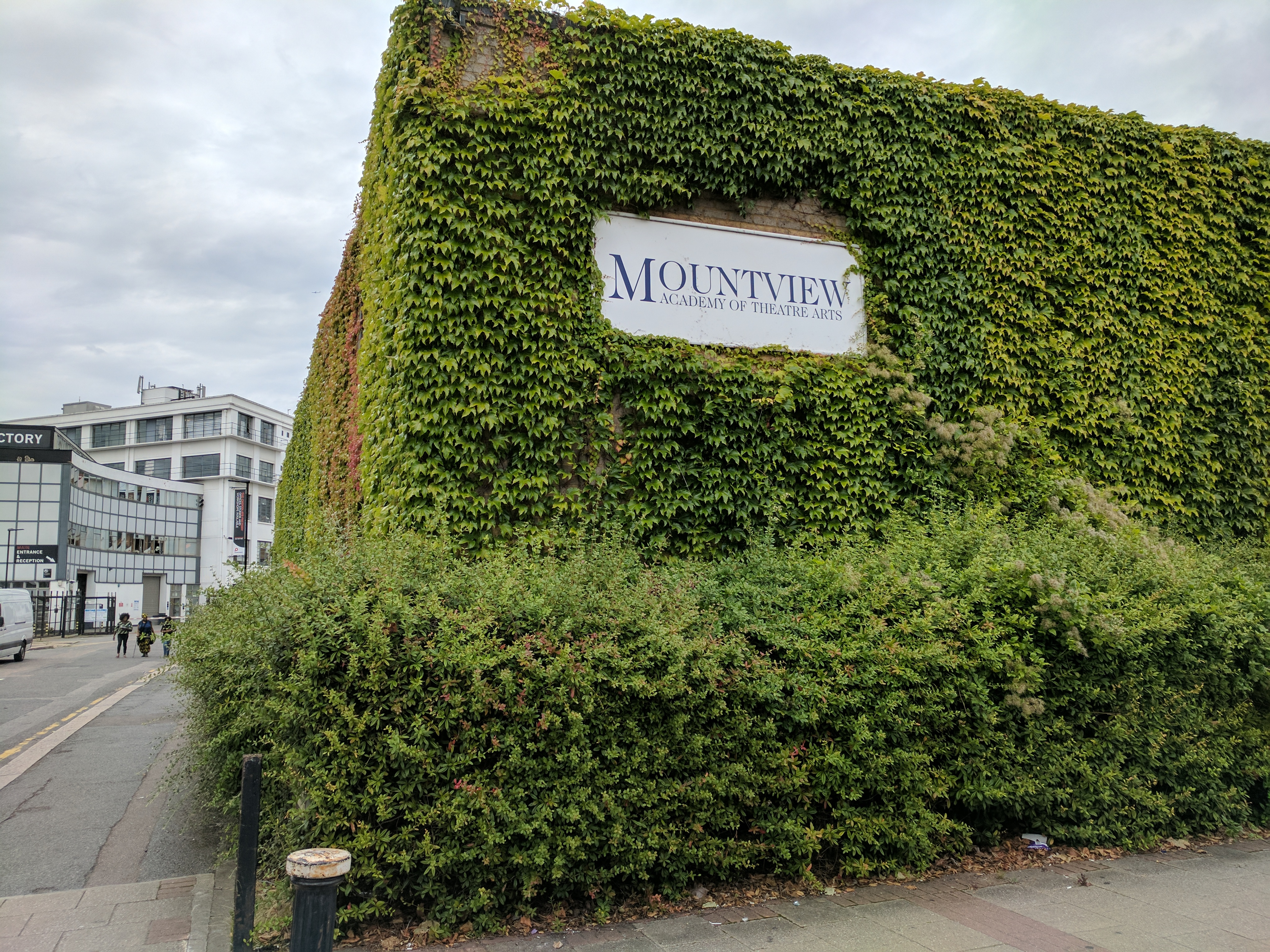 Image of Mountview Academy of Theatre Arts main building